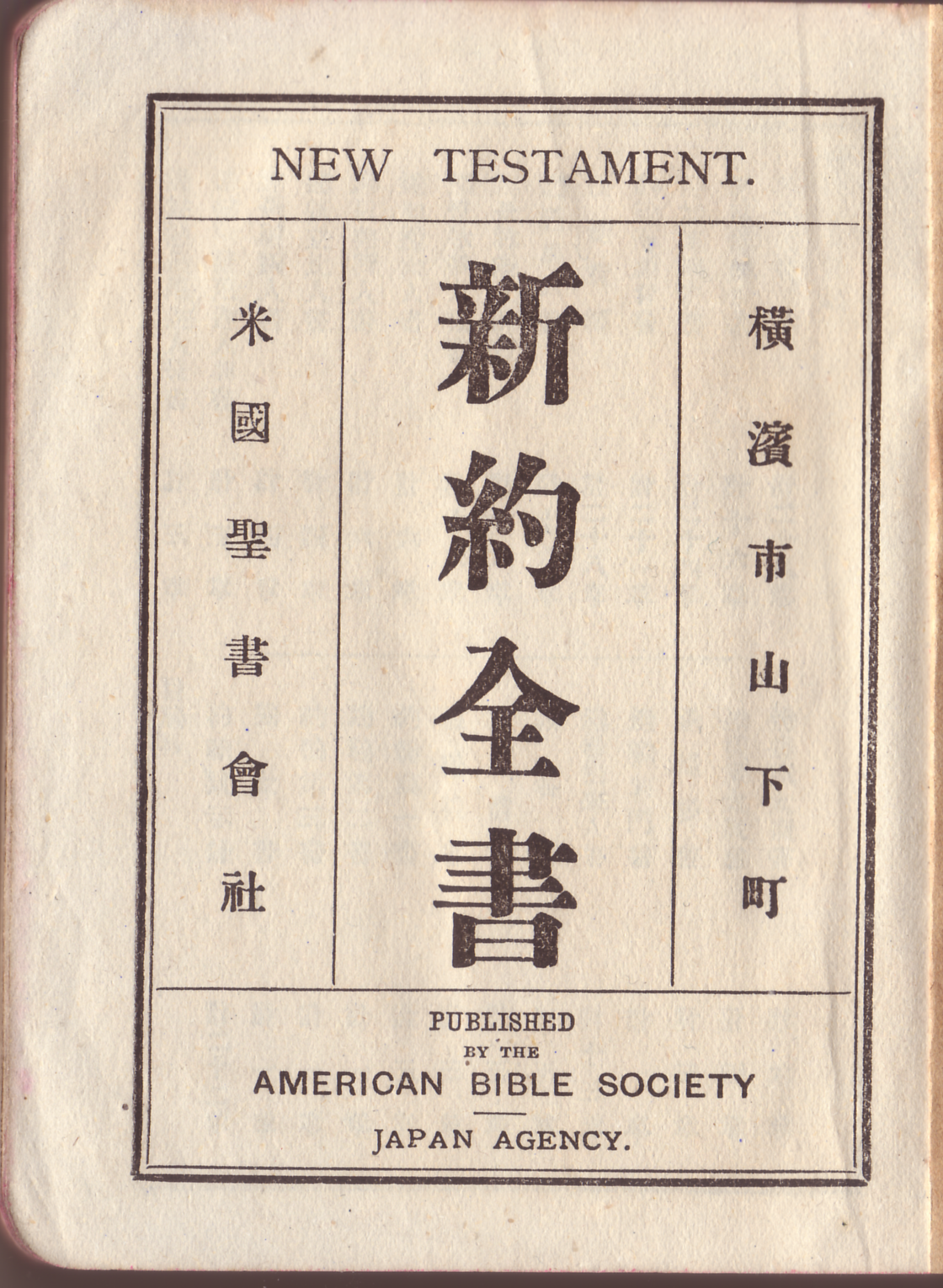 The New Testament - Japanese Version (Meiji-motoyaku), American Bible Society Japan Agency, 1904 Title page